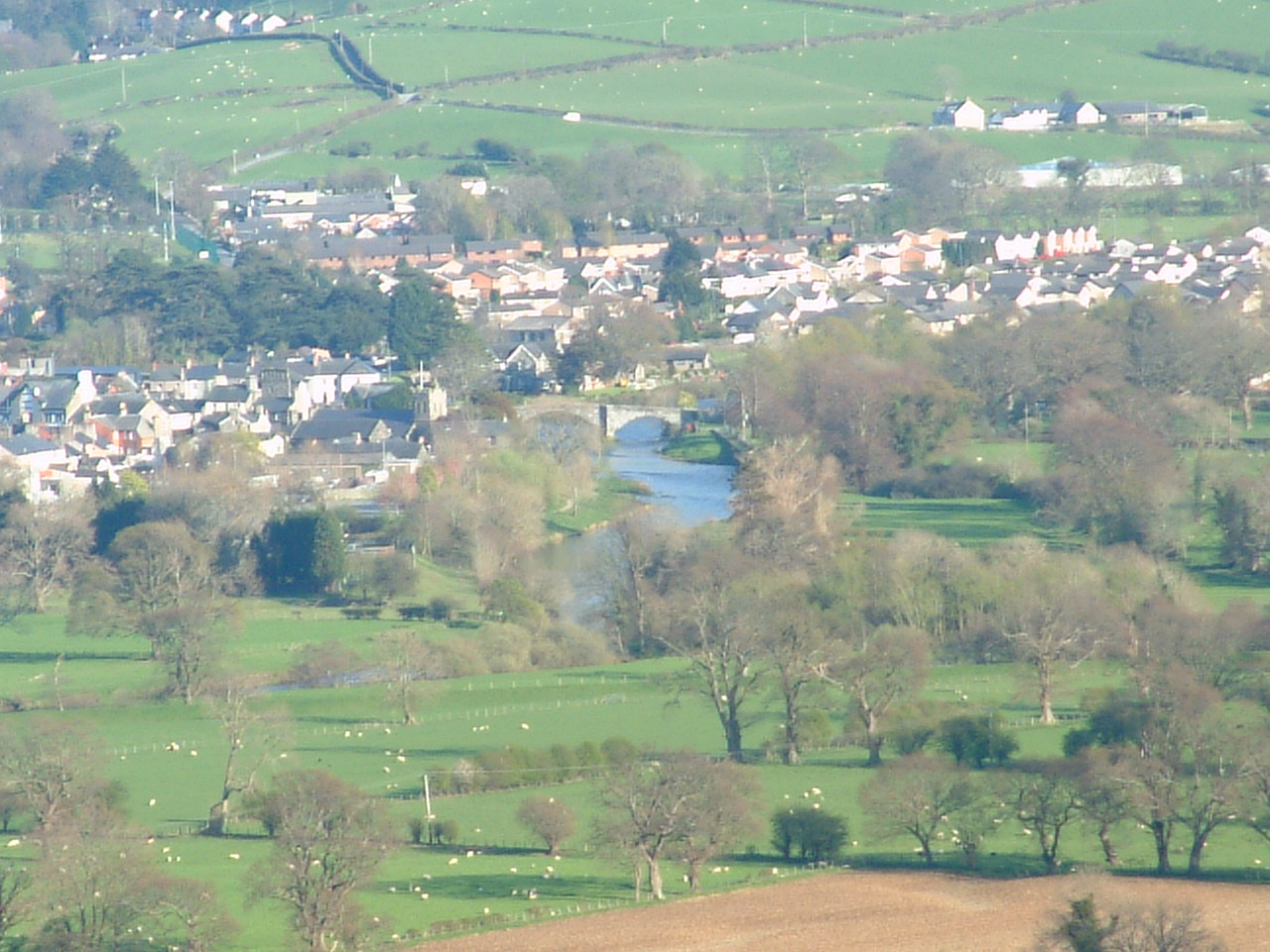 Front view of Llanrwst from Gwydir Forest.